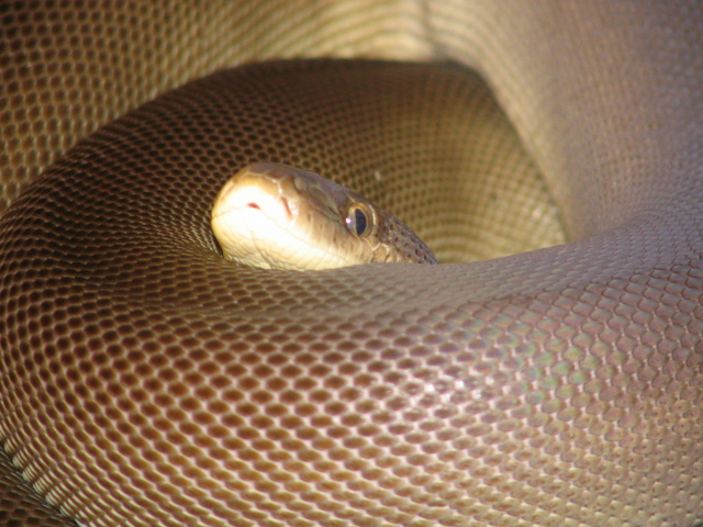 Olive Python, Liasis olivaceous